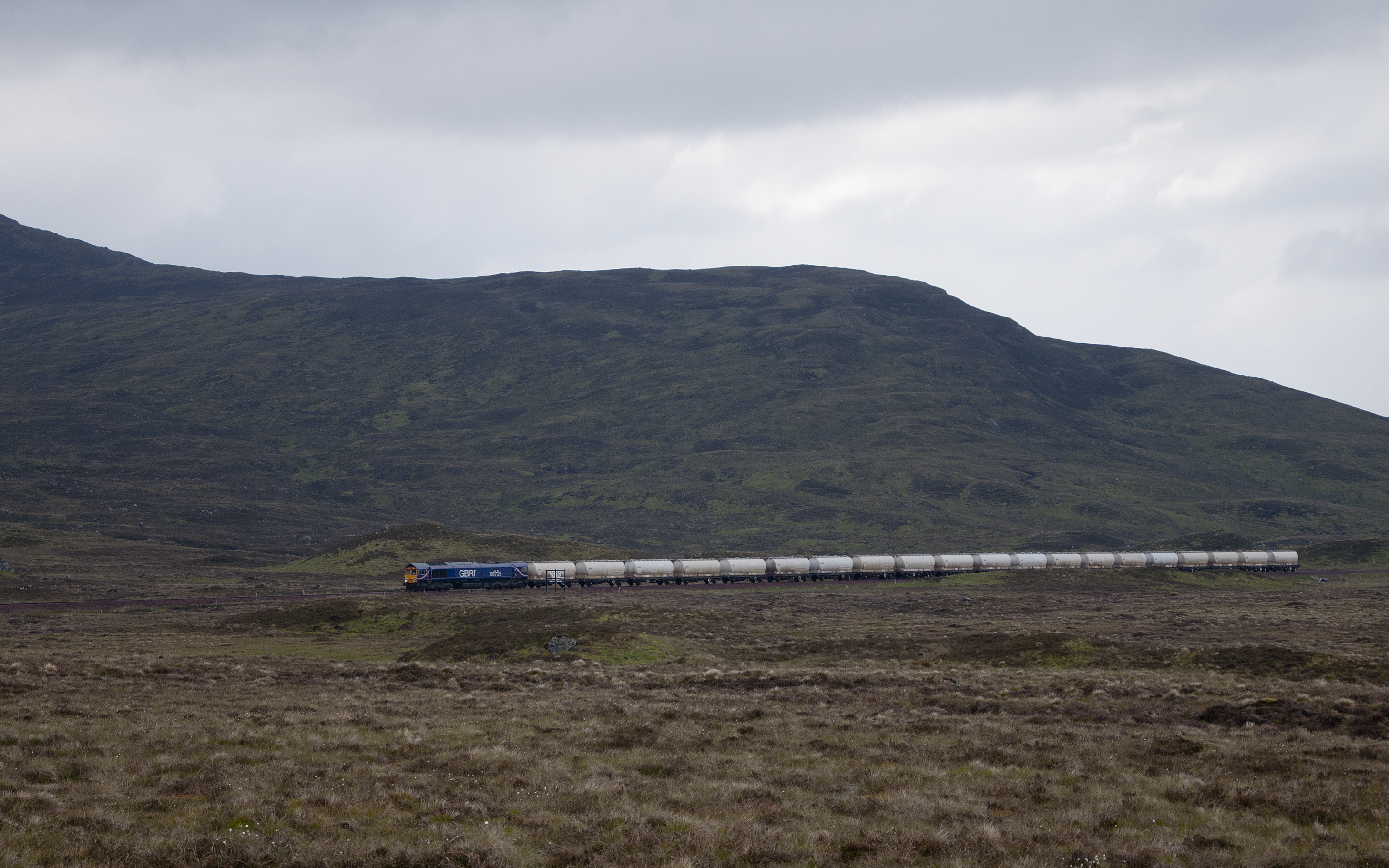 GB Railfreight train class 66 just north of Corrour Station, Scotland